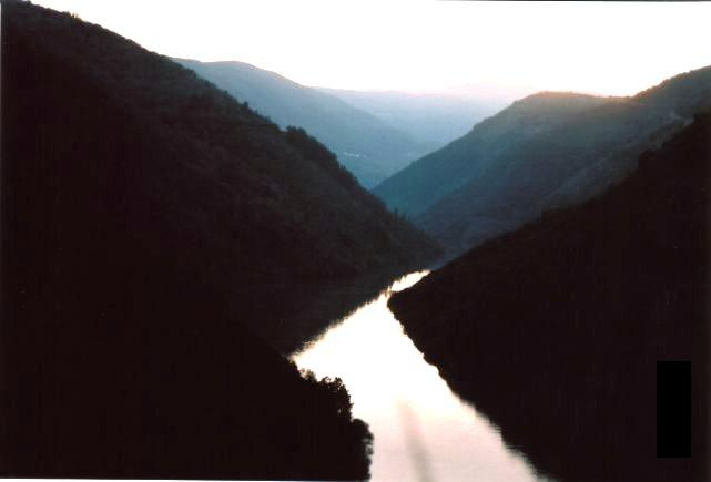 Ribeira Sacra sight